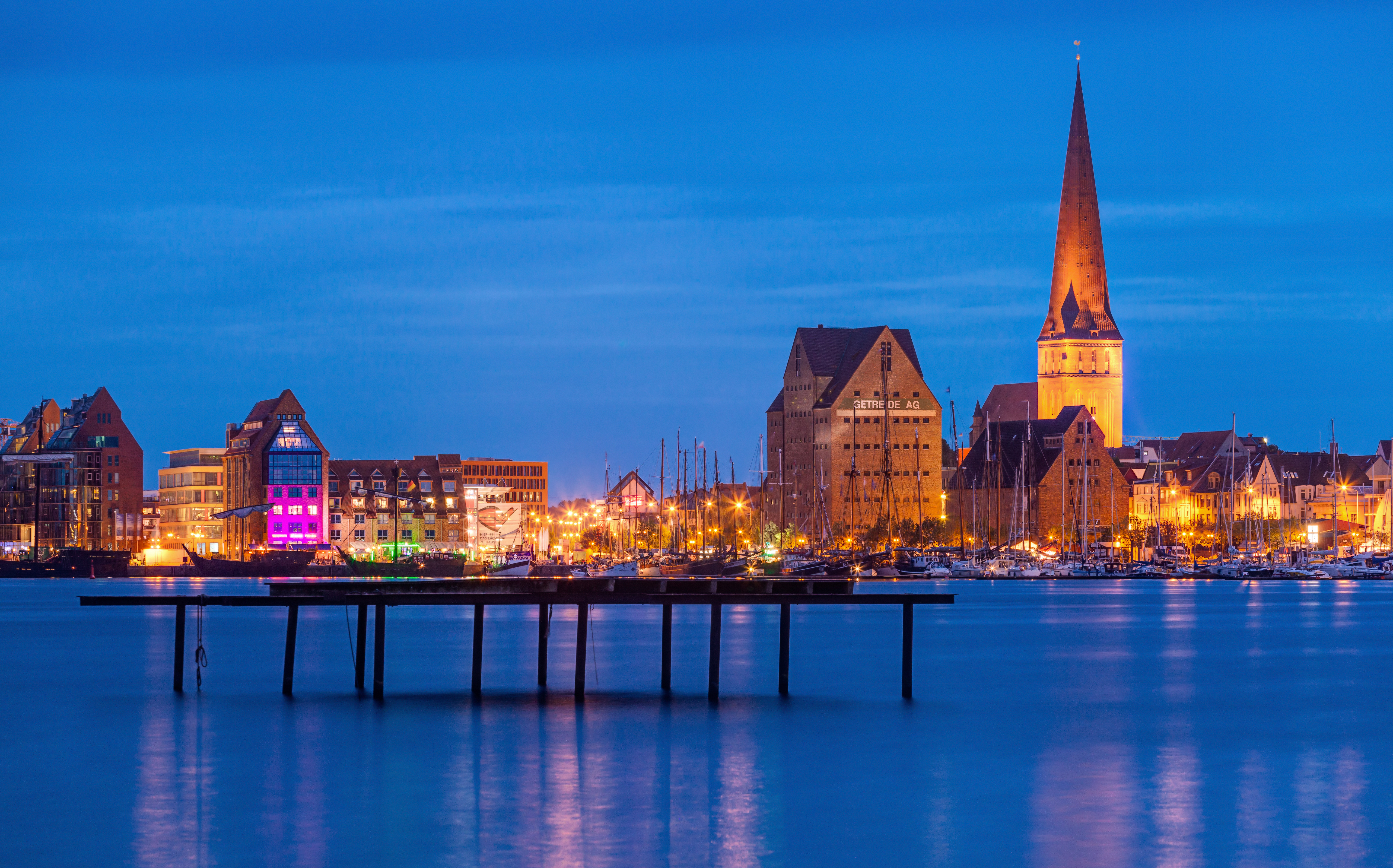 St. Peter's Church, Rostock, Mecklenburg-Vorpommern, Germany.